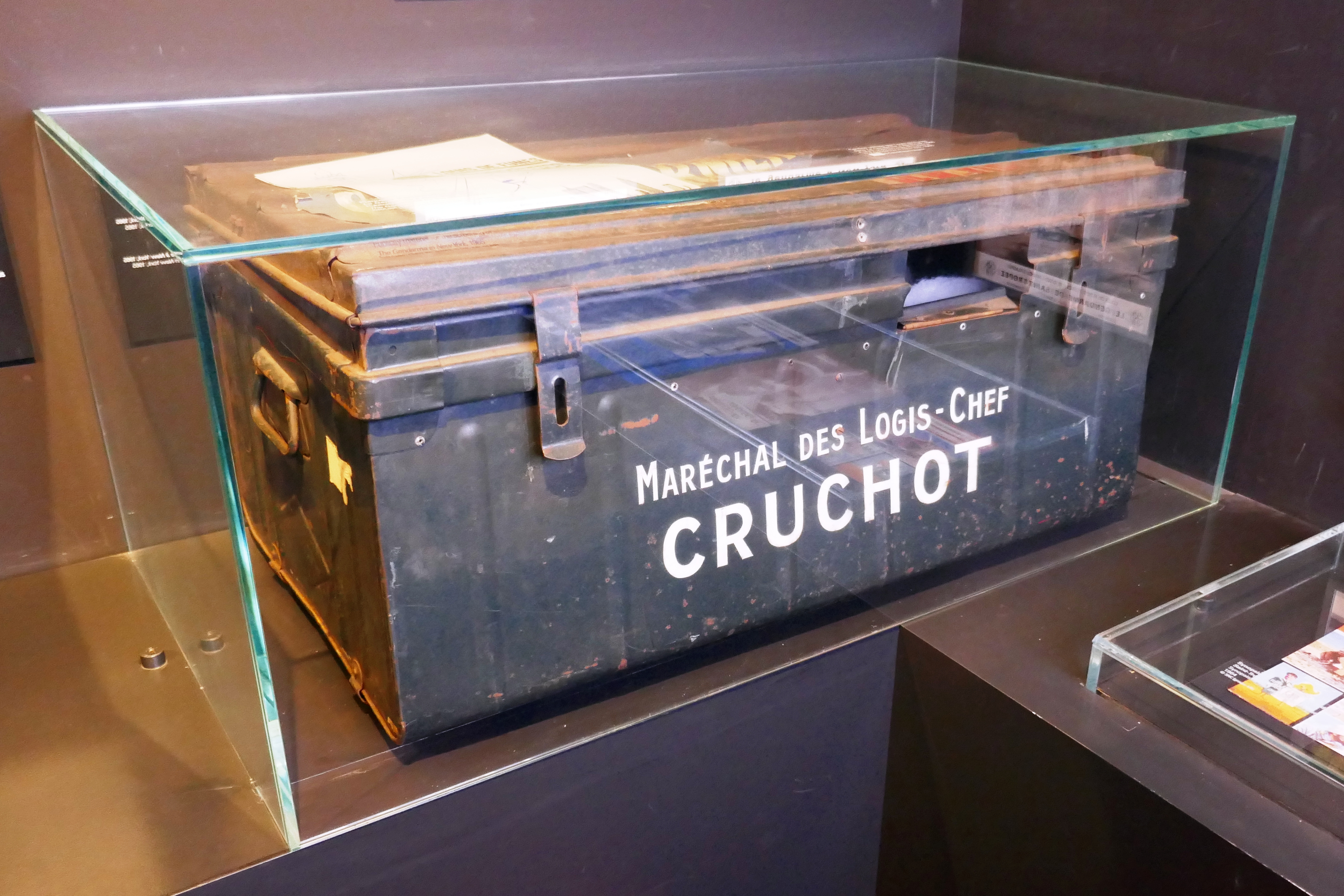 Footlocker of Cruchot in the movie Le Gendarme à New York. Museum of Gendarmerie and Cinema, Saint-Tropez, August 2015.